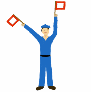 Letter T of the nautical semaphore flag signalling system Source: Martin Hawlisch (User:LosHawlos) My own drawing done in gimp First uploaded to de: in jun-2004